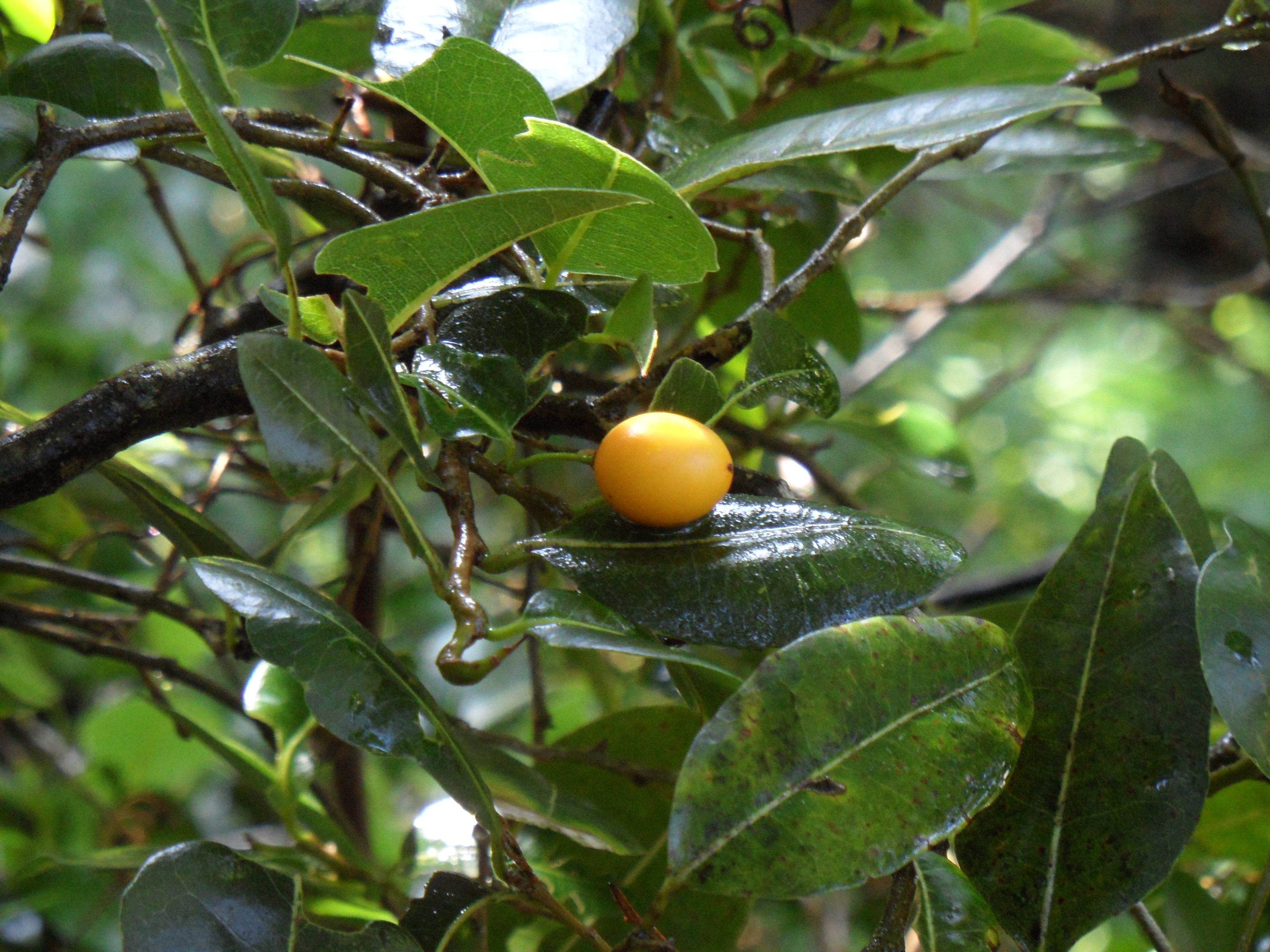 Drypetes deplanchei Greybark Mt Eliza track Lord Howe Island 6June2011